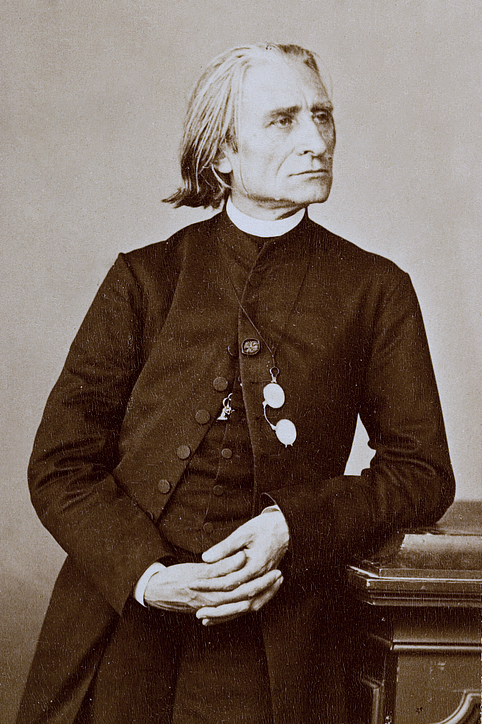 Franz Liszt; Albumen silver print on card